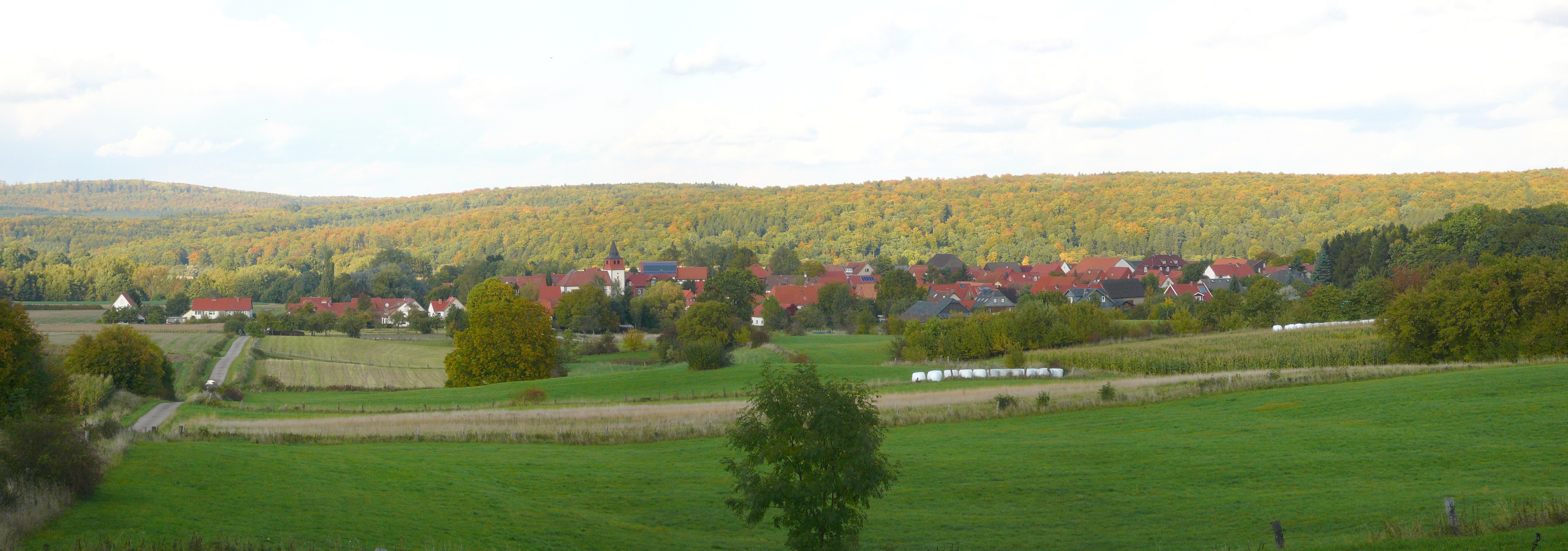 Spanbeck (Lower Saxony)